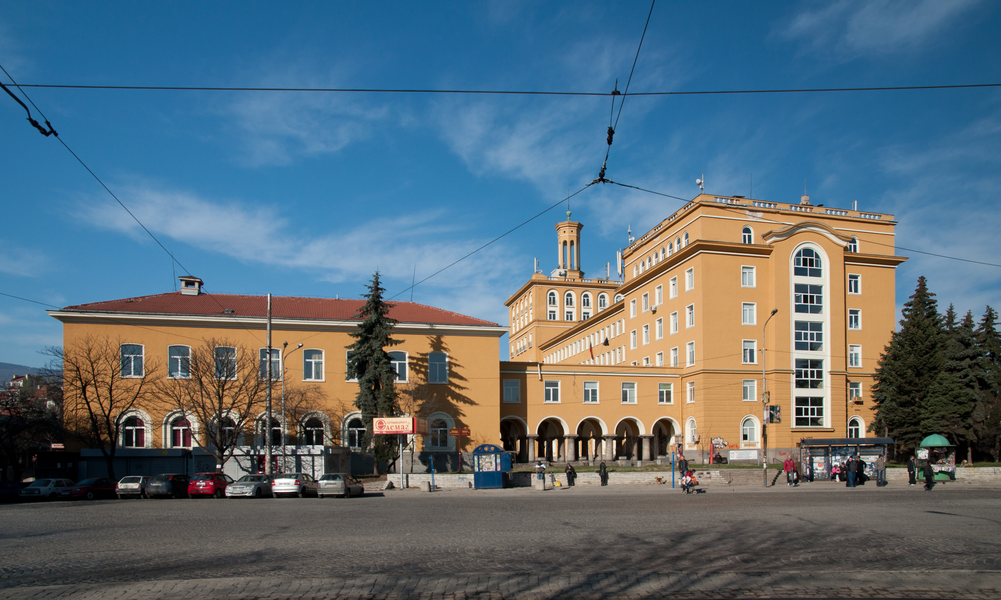 The Faculty of Chemistry, Sofia University, Bulgaria.